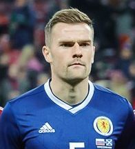 Scottish footballer Michael Devlin on 10 October 2019, during the 2020 UEFA European Championship qualifying match between Scotland and Russia in Moscow.